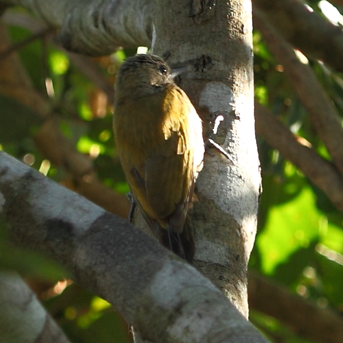 Little Woodpecker at Pantanal, Poconé - MT - Brazil